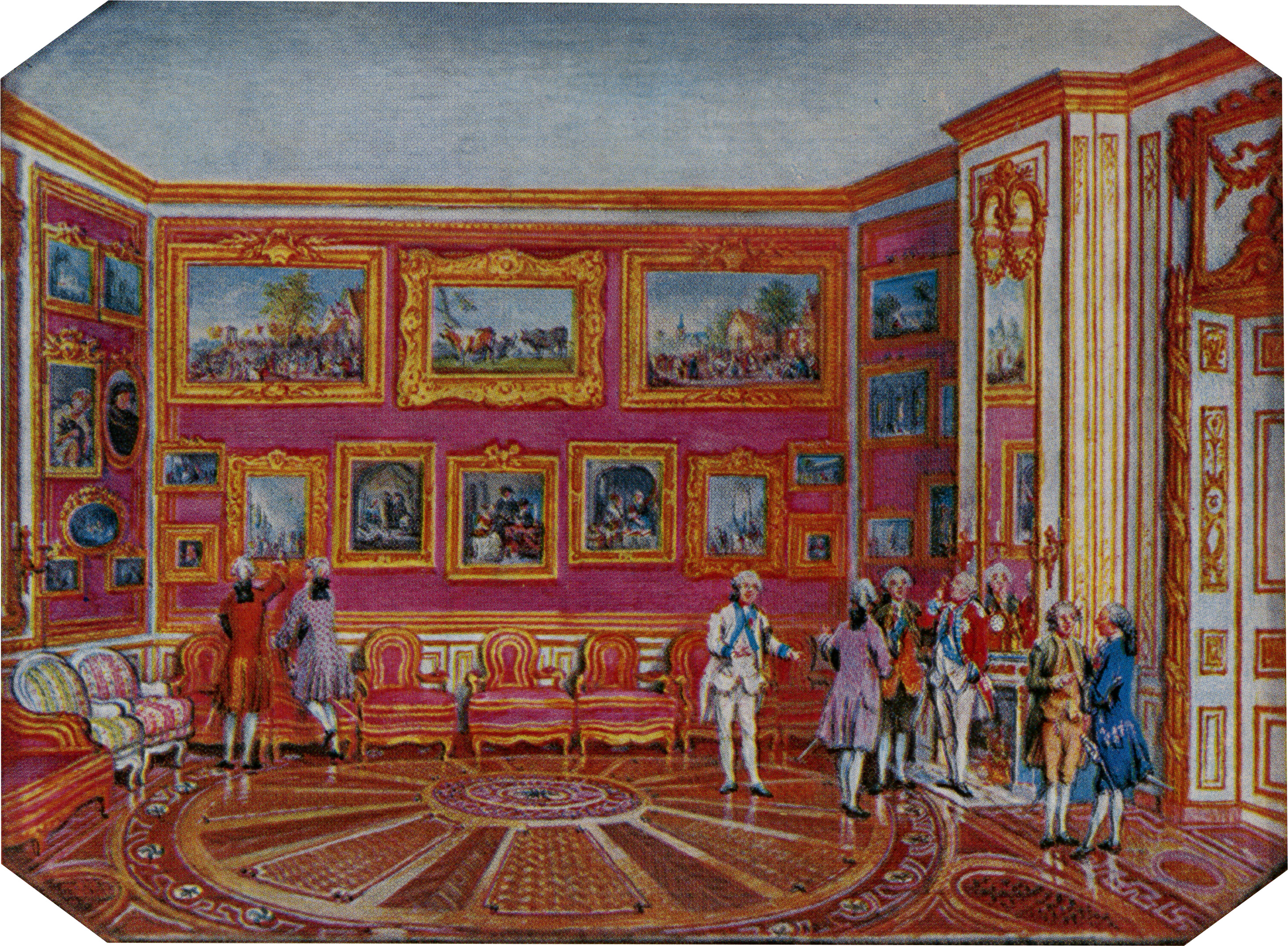 Miniature painting on the bottom of the Choiseul gold snuffbox depicting the Premier Cabinet of the Hôtel de Choiseul on the Rue de Richelieu in Paris